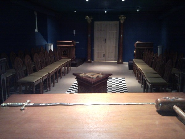 Liberal freemasonry in Warsaw